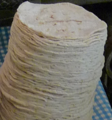 Maize tortilla